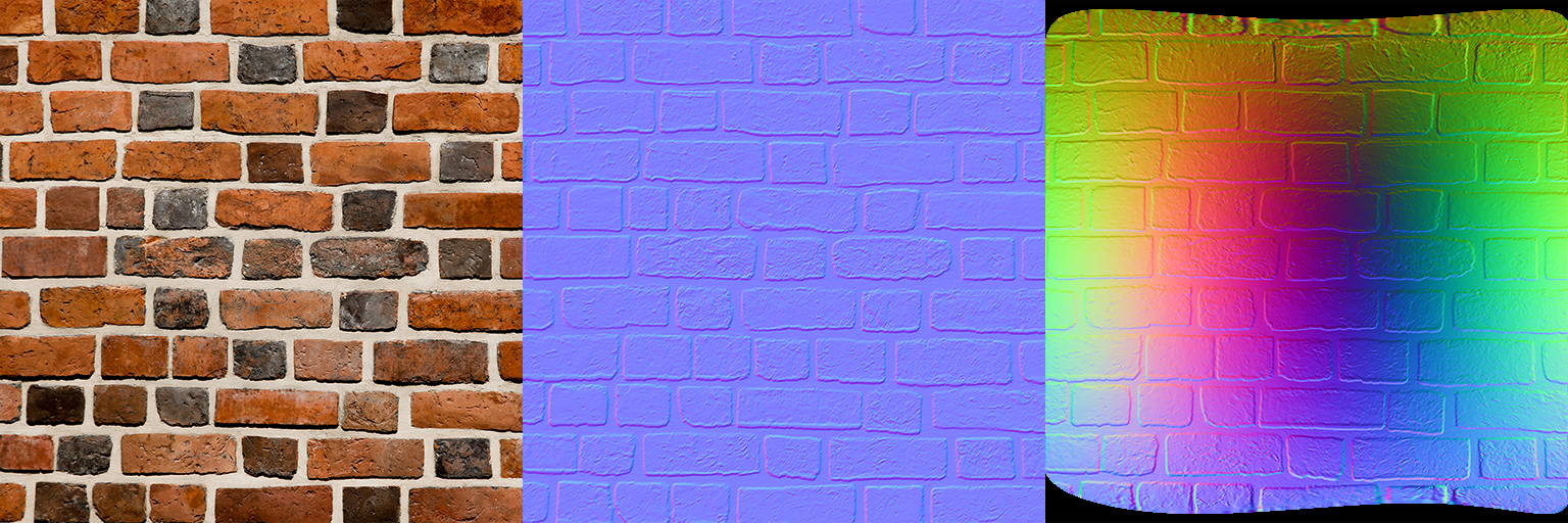 Brick wall texture and normal maps. In the middle normal map in tangent space, on the right in object space.